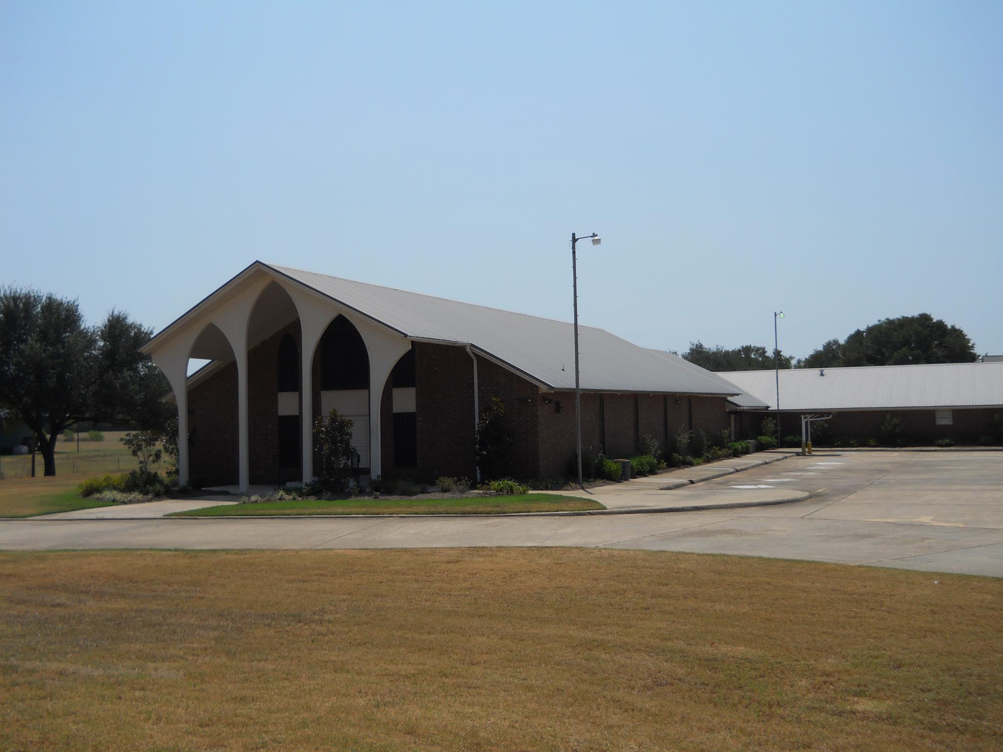 Fairview Baptist Church Building in Fairview Alpha, Louisiana